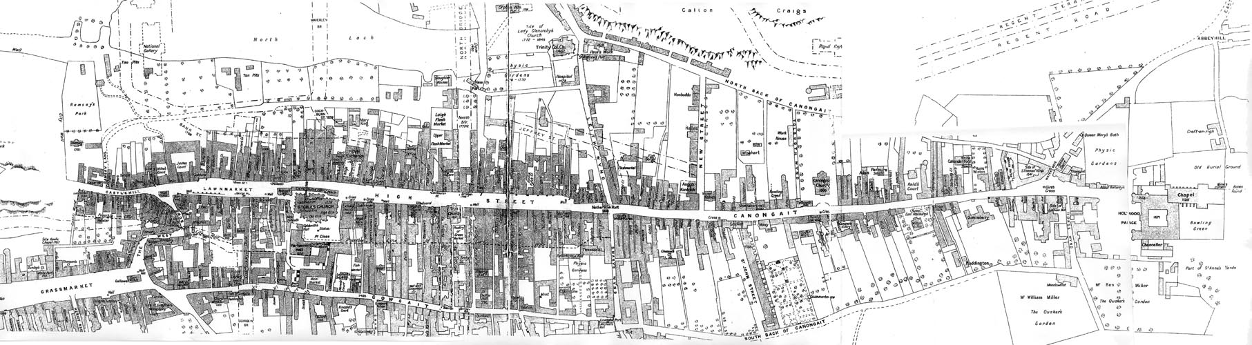 The Royal Mile in Edinburgh, Scottland